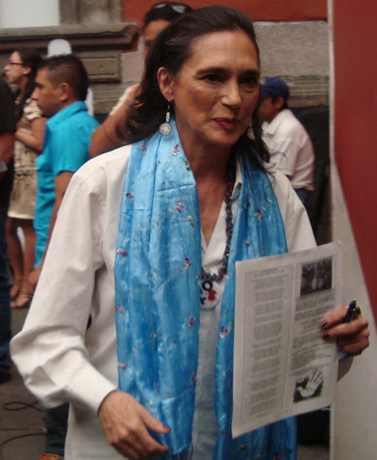 Tomada en el evento 1 MINUTO X NO MÁS SANGRE